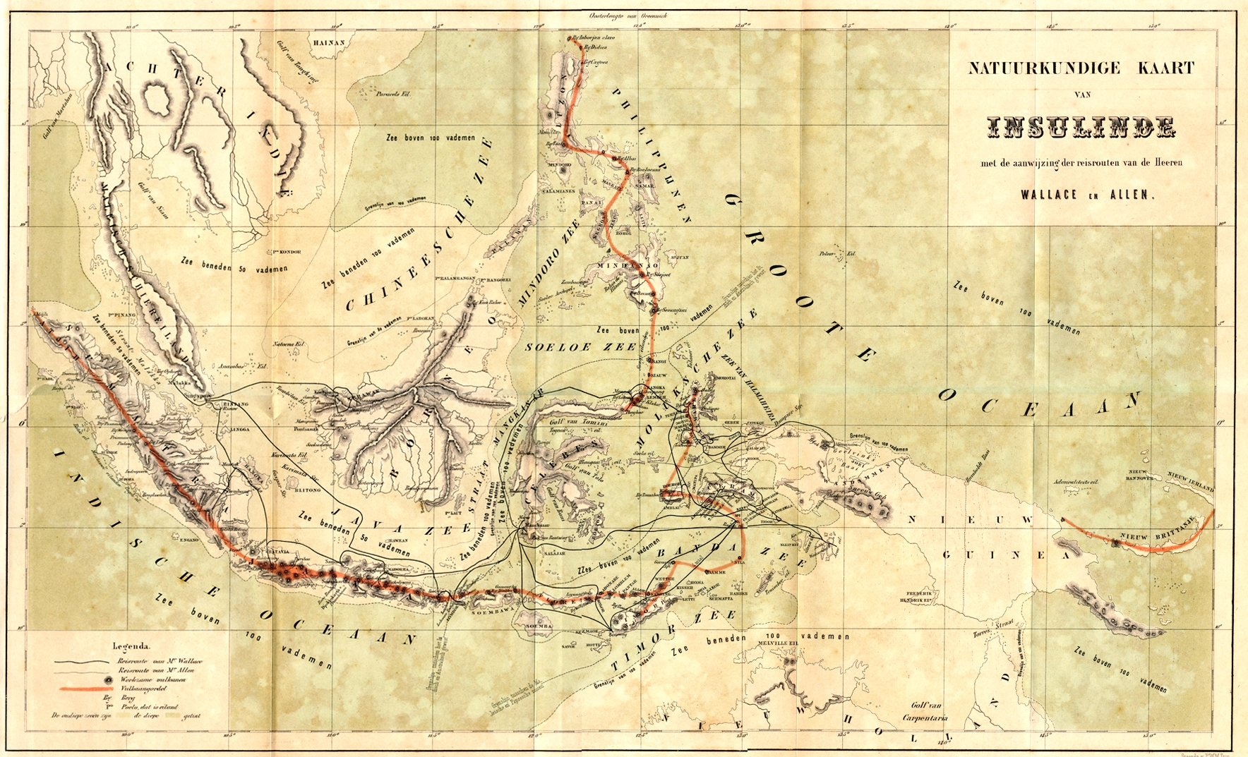 Map of the Malay Archipelago showing Wallace's travels.